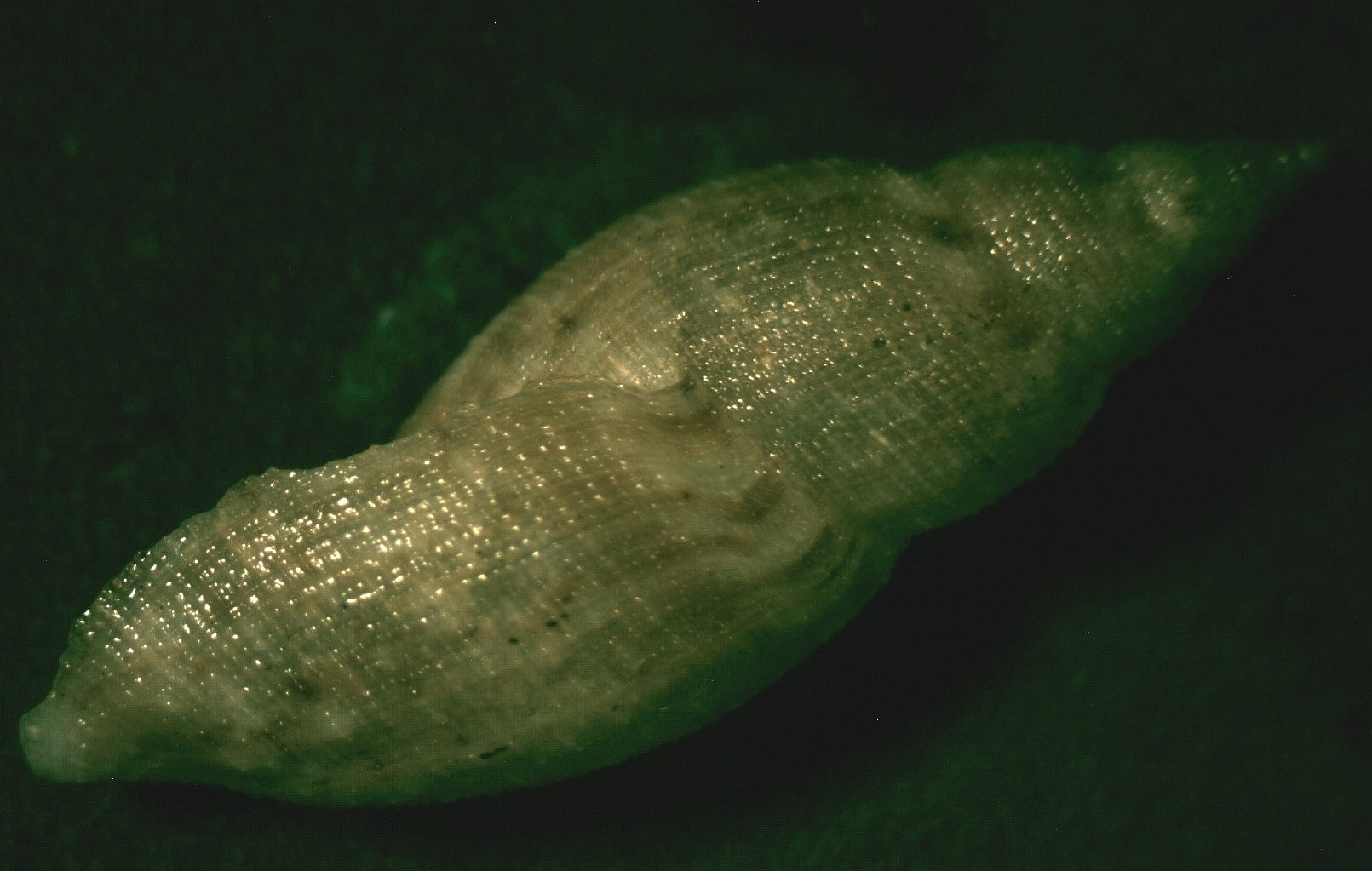 Daphnella radula H. A. Pilsbry, 1904 a cone snail from the family Conidae; Philippines